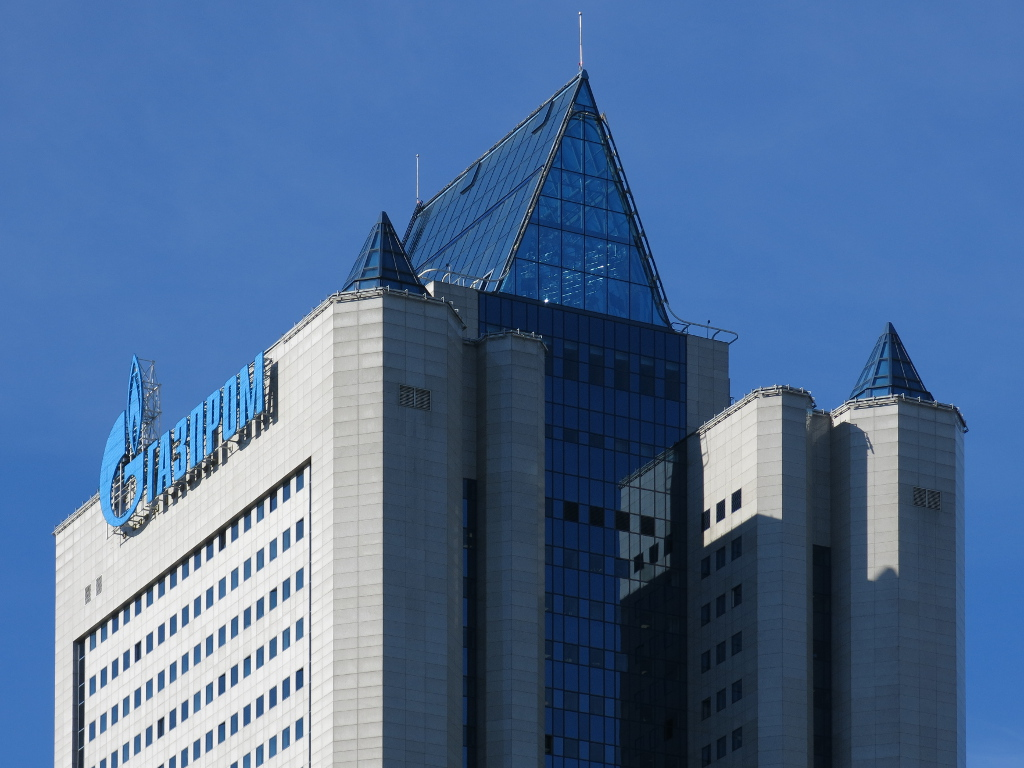 Main building of Gazprom Headquarters in Moscow